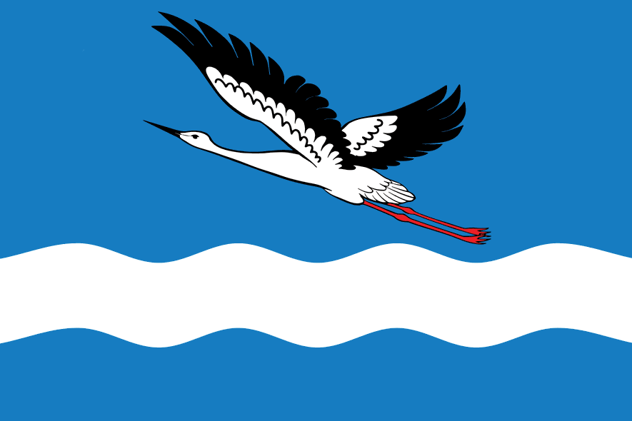 Flag of Amursk, Khabarovsk Territory, Russia